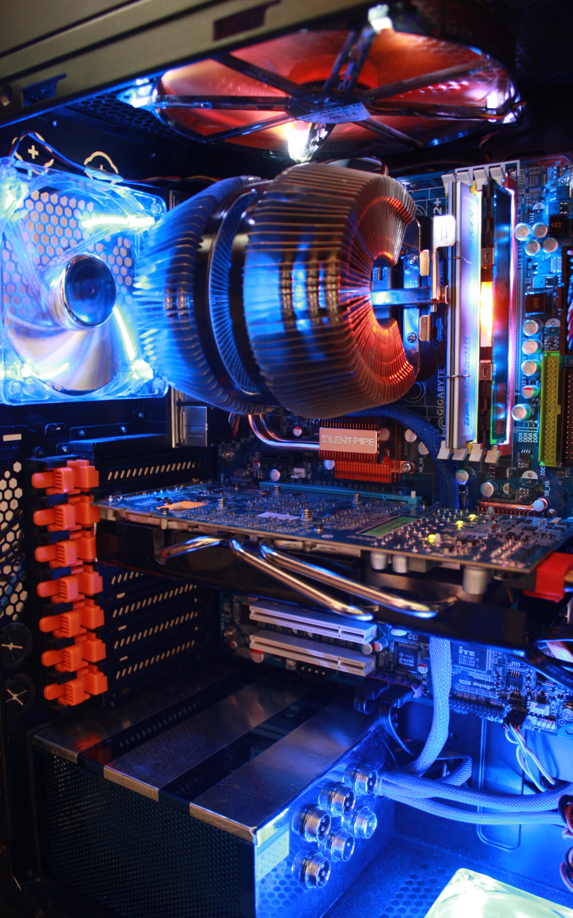 View of my PC for Overclock subject. Overcolck air cooling.